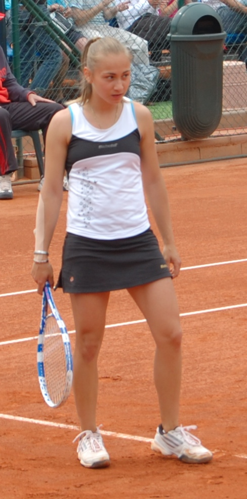 Aleksandra Krunić at the 2011 Sparta Prague Open